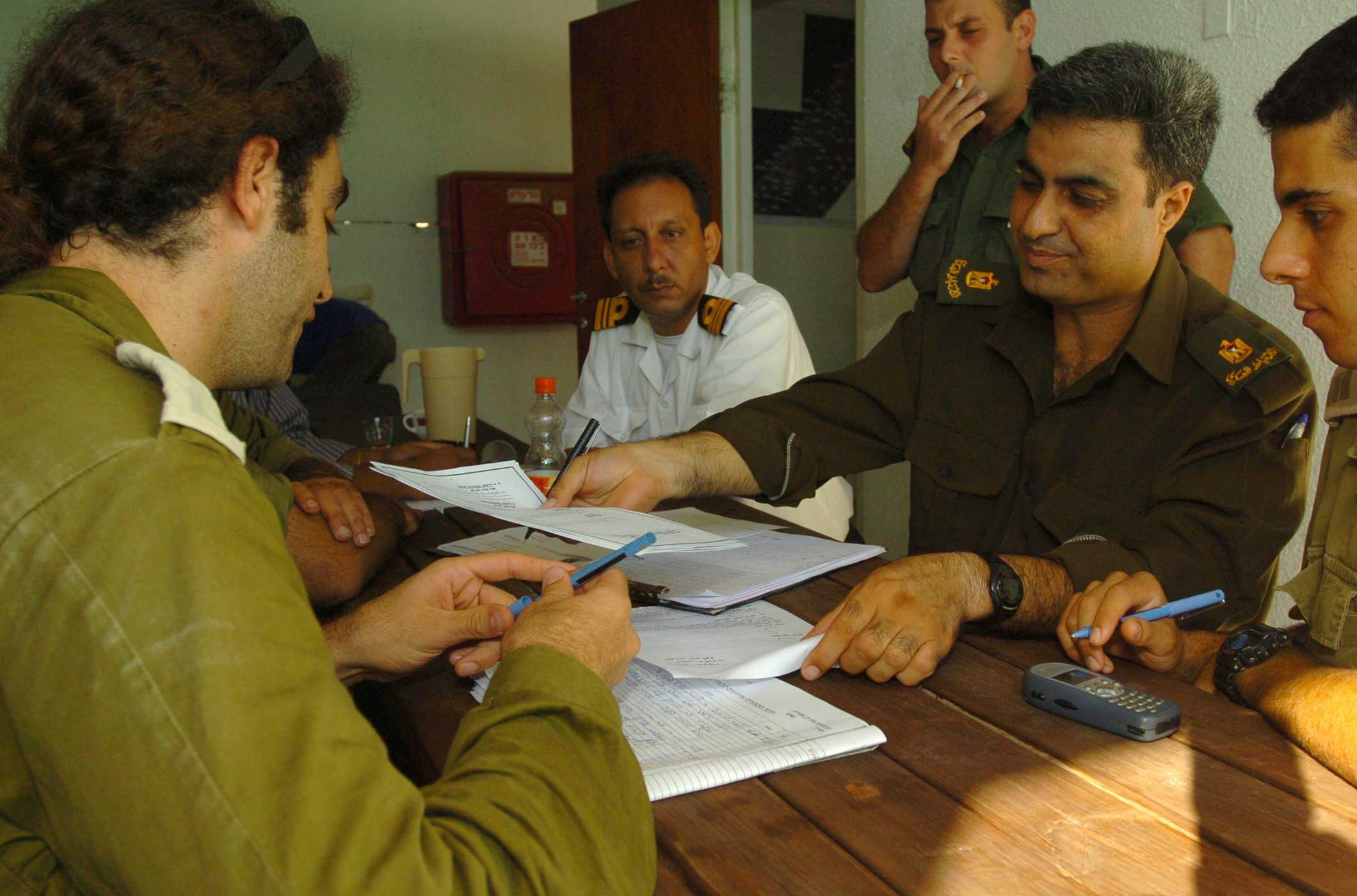 August 16, 2005. Israeli soldiers regularly meet with the Palestinian Police stationed at the Erez District Coordination Office. Pictured: Israeli and Palestinian officers hold a field situation assessment in preparation for Israel's 2005 Gaza Disengagement.